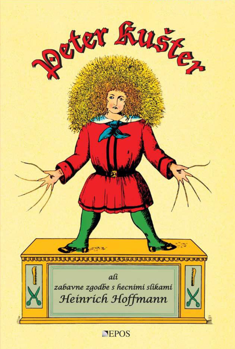 Peter Kušter - title page of the slovenian translation of Struwwelpeter (2013)